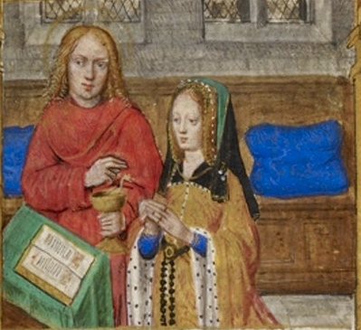 Joanna of Castile praying, accompanied by John the Evangelist, Hours of Joanna of Castile, Bruges